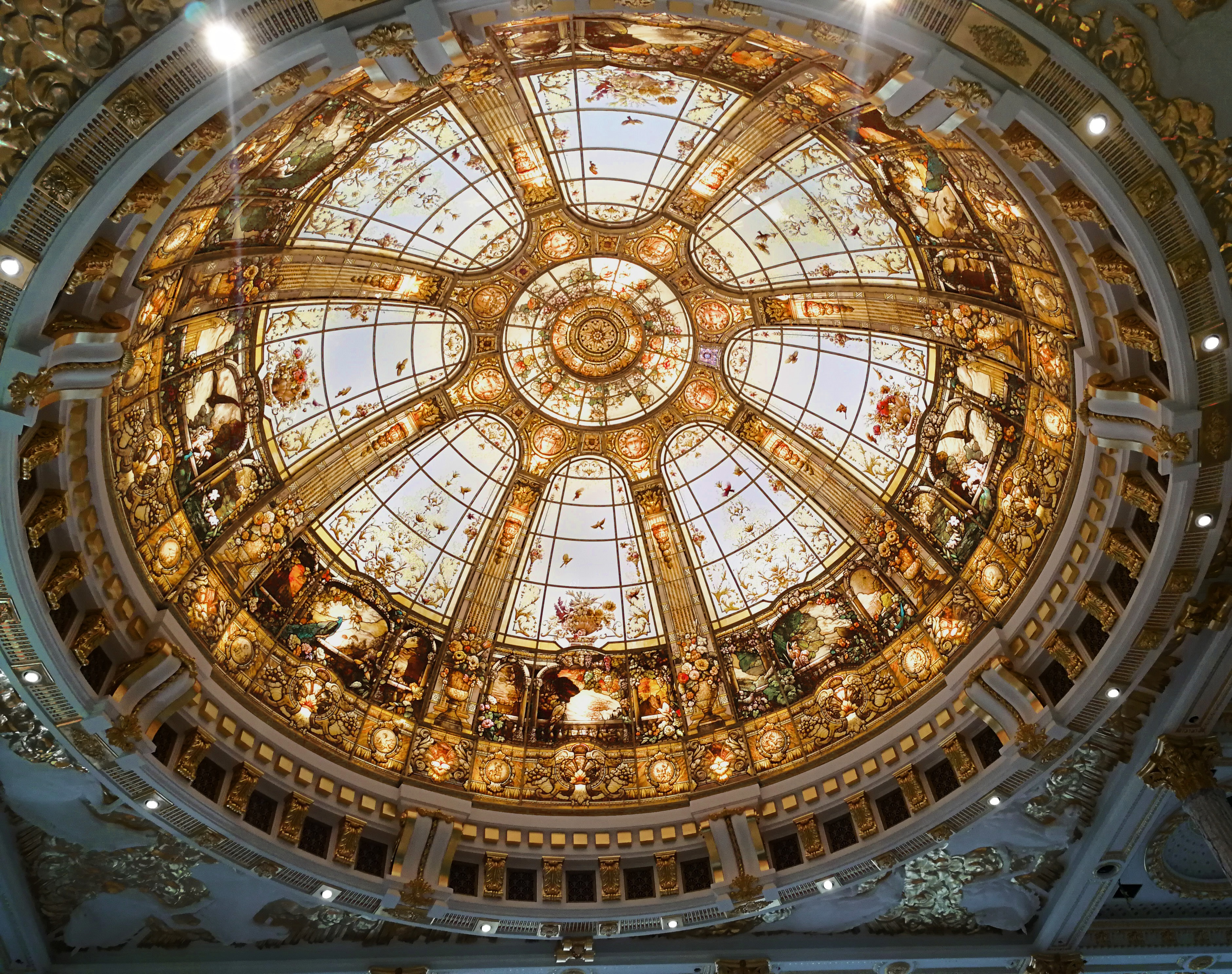 Stained glass dome (9 m Dia.) handmade by ©France Vitrail International